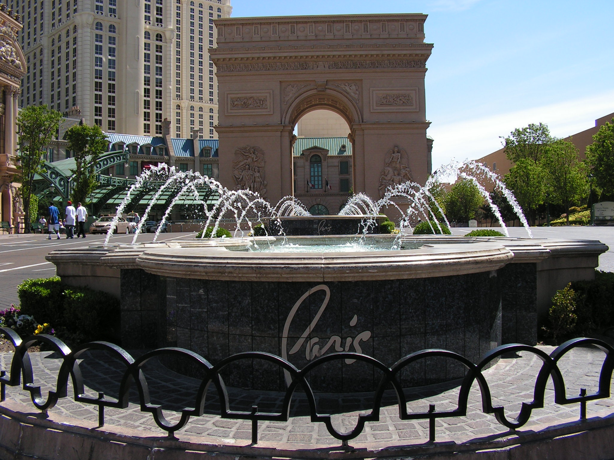 Arch in front of Paris Hotel in Las Vegas